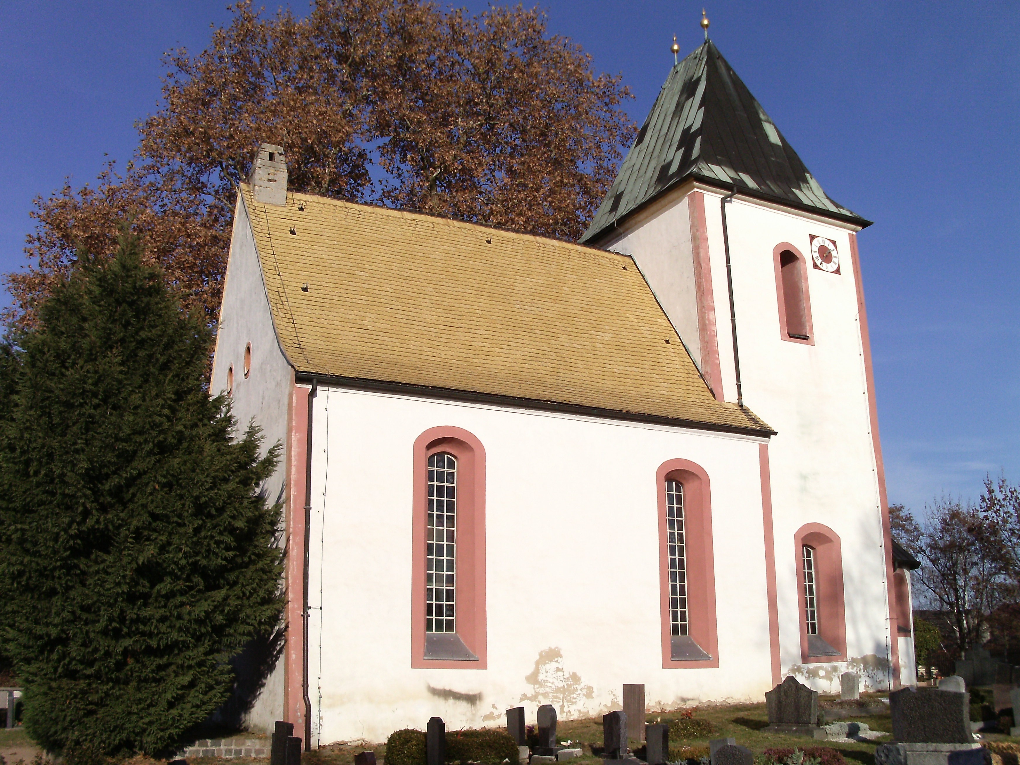 Luther Church in Grosspösna (Leipzig district, Saxony), view from the south